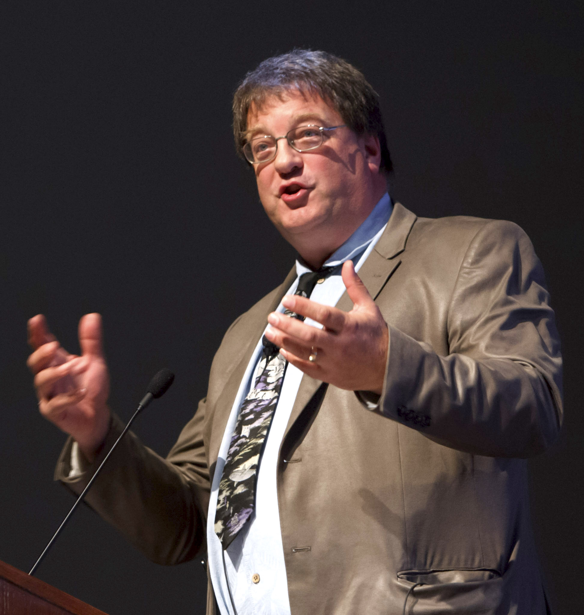 Cropped version of FIle:Ken-Coates-At-NSB-Engage-Vancouver-84.jpg